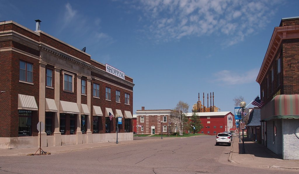 Downtown Cloquet looking north-northwest up Arch Street from Avenue C, Cloquet, Minnesota, USA.